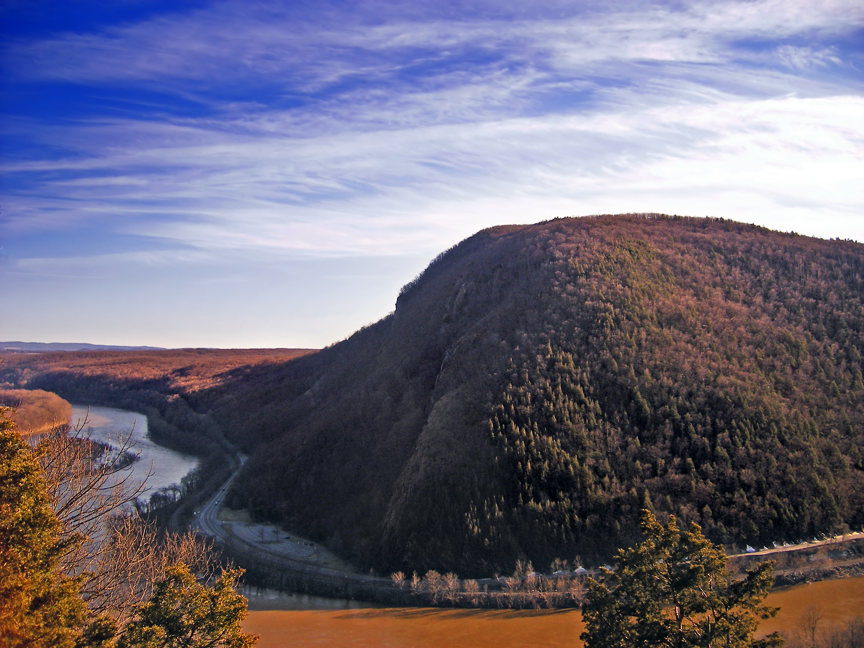 Mount Minsi, Pennsylvania, as seen from a lookout at Mount Tammany, New Jersey. Route 611 and the Delaware River straddle the base of the ridge.